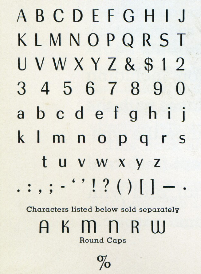 From